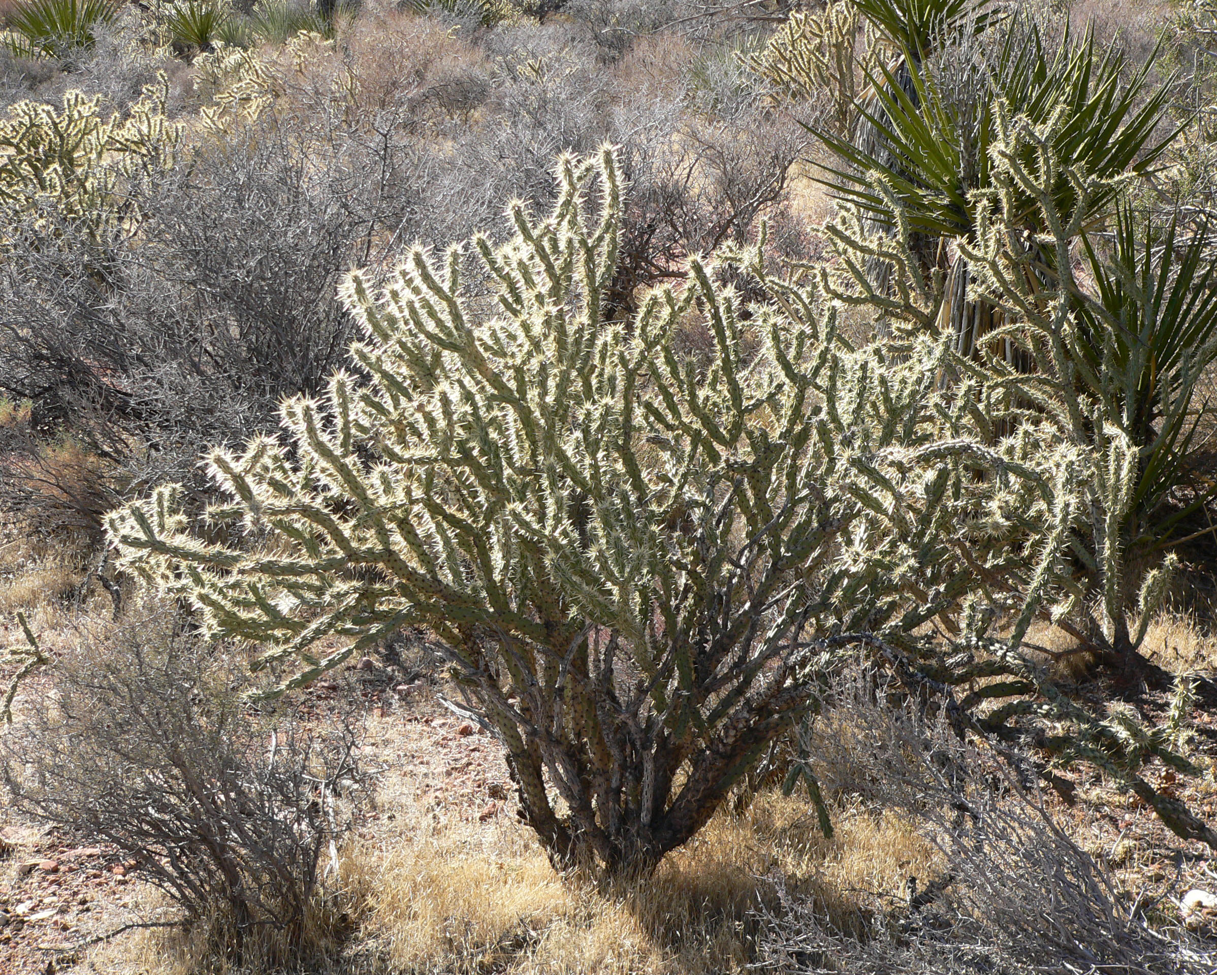 Cylindropuntia acanthocarpa var. coloradensis in First Creek Canyon, Red Rock Canyon, Spring Mountains, southern Nevada